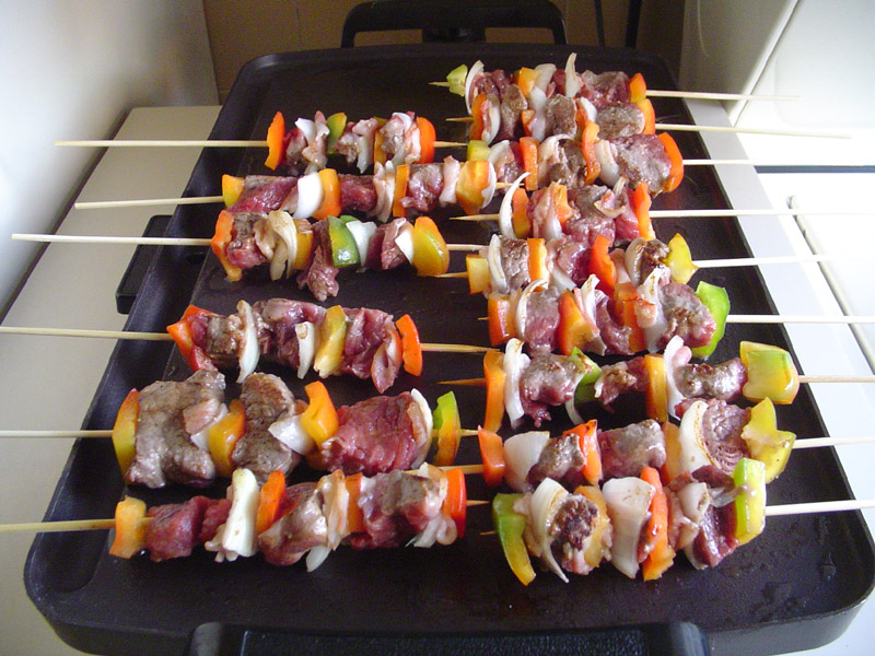 Pinchos Americanos. Pinchos in Central & South America are Barbequed meat (Beef, Pork, Chicken, Shark, Mexican Chorizo, etc.). Basque is famous for the original pinchos, and Honduras is known for its Latin American version.Pinchos